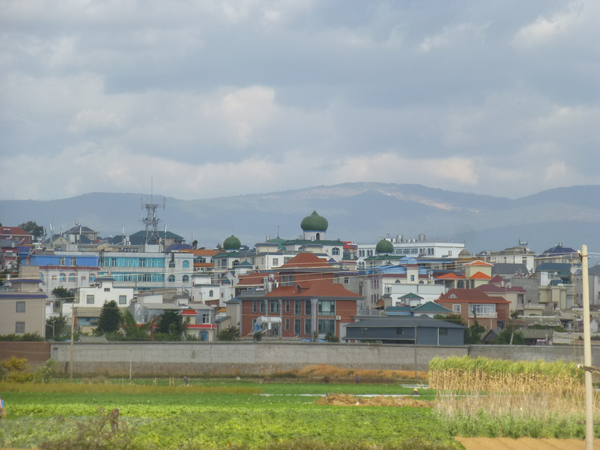 The neighborhood west of Jianshui Train Station (Peidecun 培得村 or Xiaohuilong 小回龙).